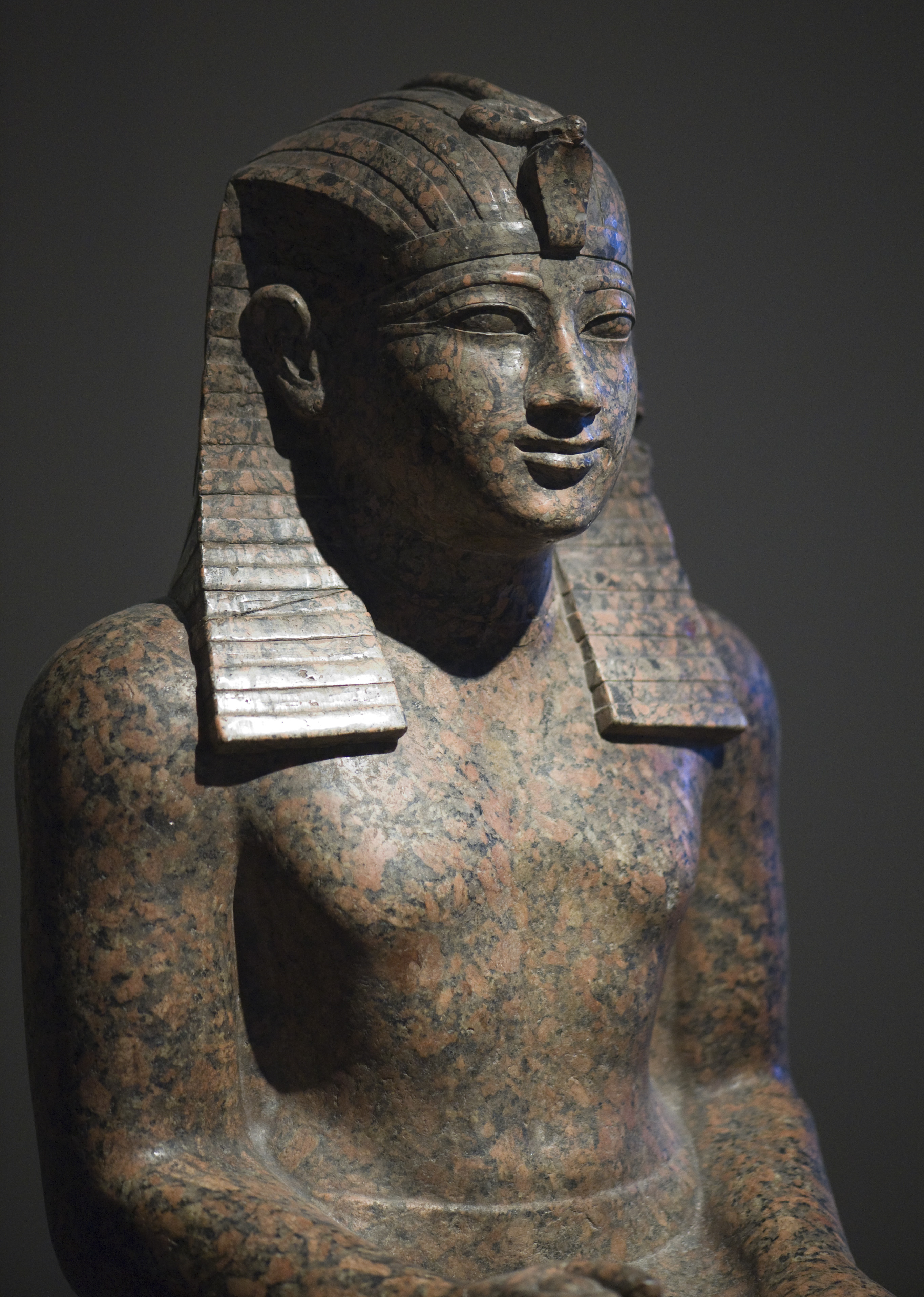 This is no fake but of course the head is a 19th century later addition. Against tradition I would smile too if I would have been promoted to Pharao 4000 years later.